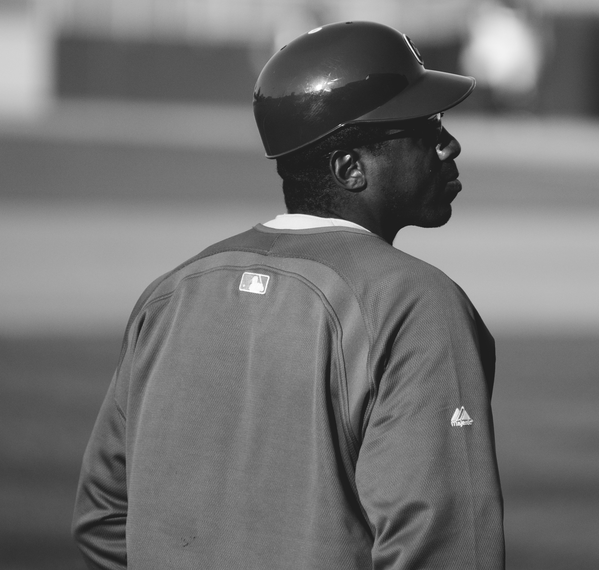 Desi Wilson as a coach with the Peoria Chiefs in Lansing, Michigan in 2008